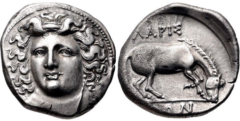 Larissa, 356-342 BC. Silver drachma (19mm, 6.03 g, 5h). Head of the nymph Larissa facing slightly left, wearing ampyx, earring, and necklace / ΛAPIΣ–AIΩN, horse right, about to roll.